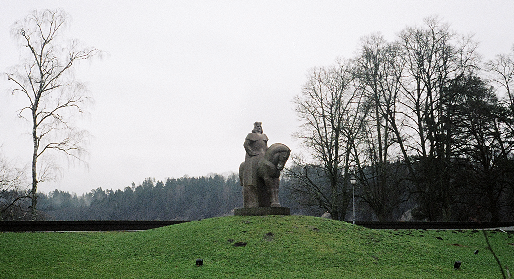 Monument to Vytautas the great in Birštonas, Lithuania.